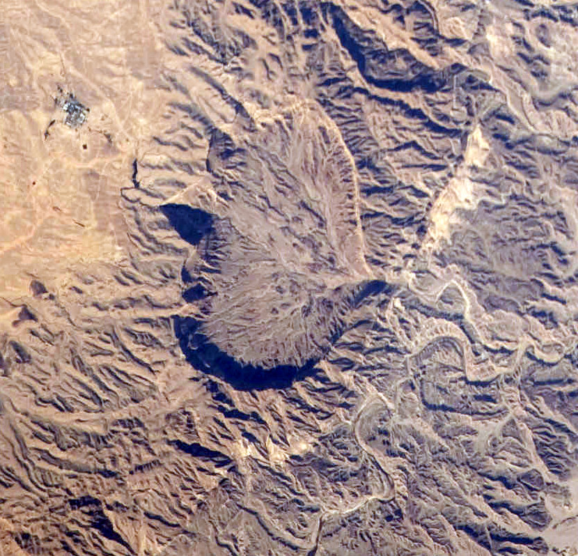 Israel’s smallest erosion crater, in the Negev desert. As seen from the International Space Station Image acquired with a Nikon D2Xs digital camera fitted with an 400 mm lens, and is provided by the ISS Crew Earth Observations experiment and Image Science & Analysis Laboratory, Johnson Space Centre.